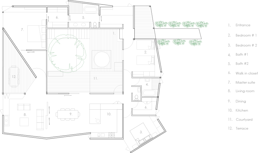 Floorplan of Ivanhoe House